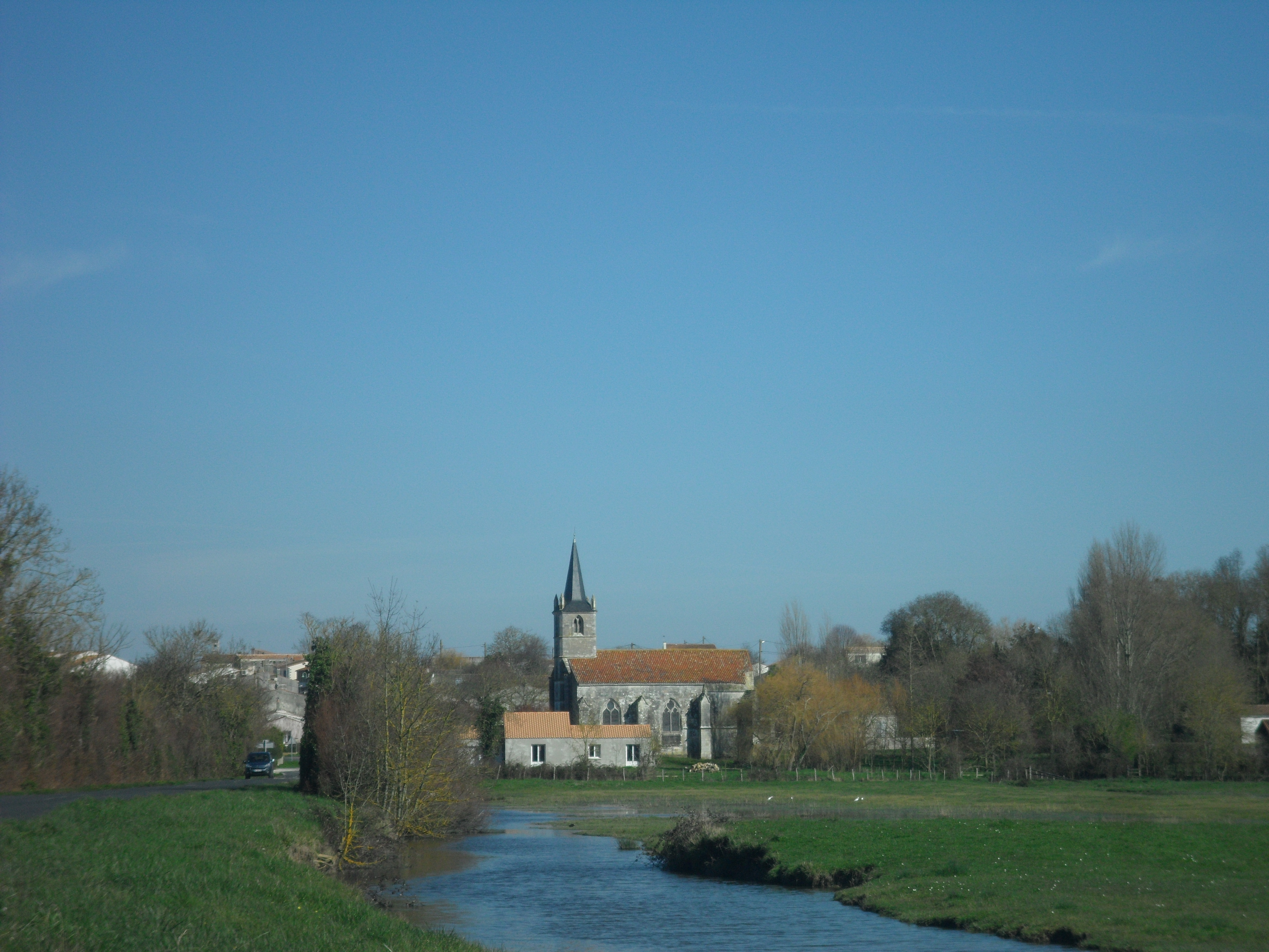 L'église dans le bourg de Hiers